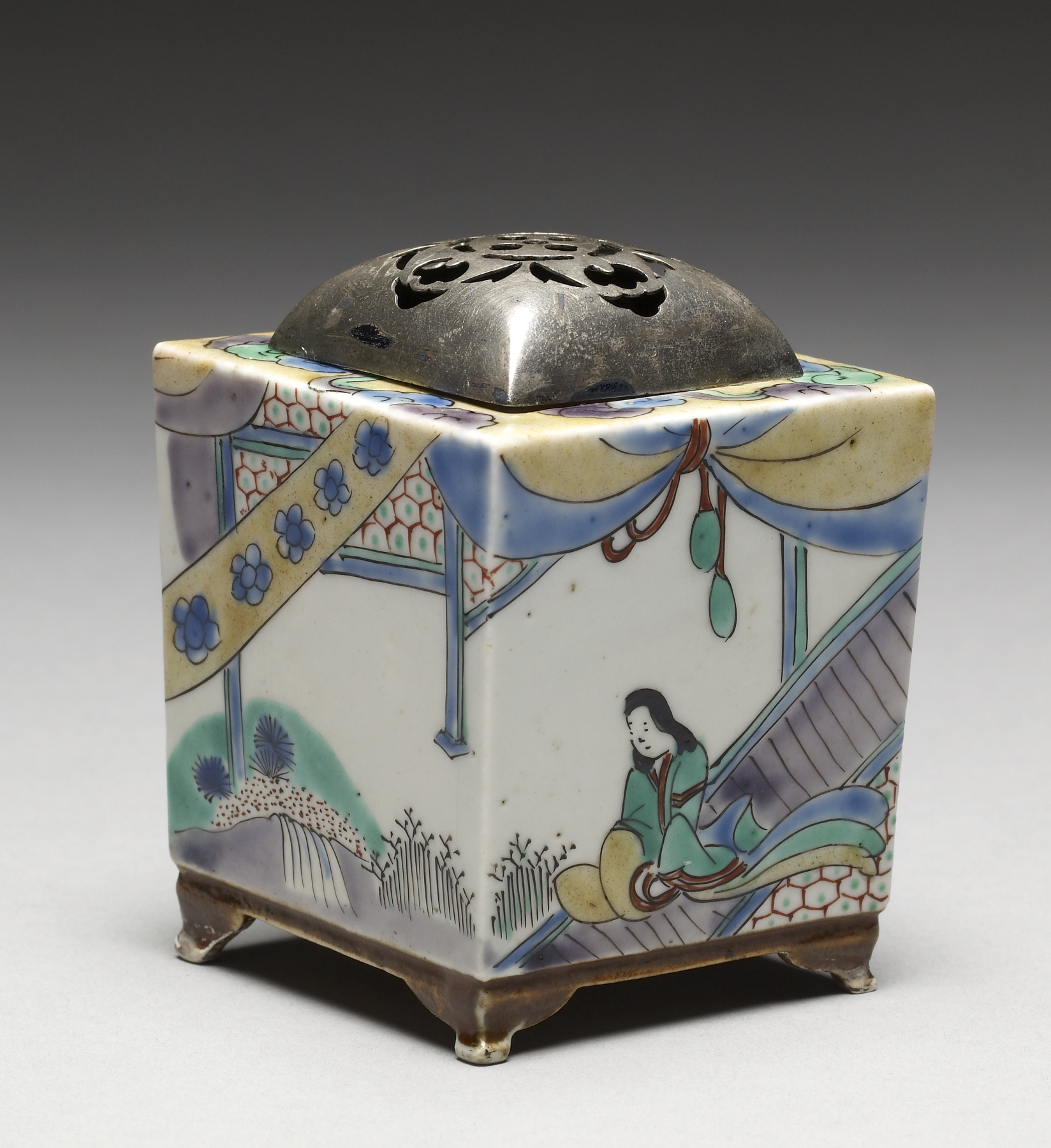 This Arita ware "koro" is decorated with domestic scenes possibly illustrating the "Tale of Genji."